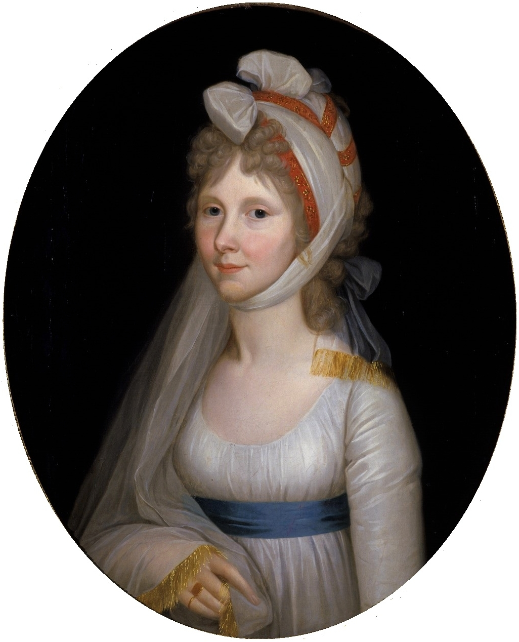 Portrait of Princess Augusta of Prussia (1780-1841)